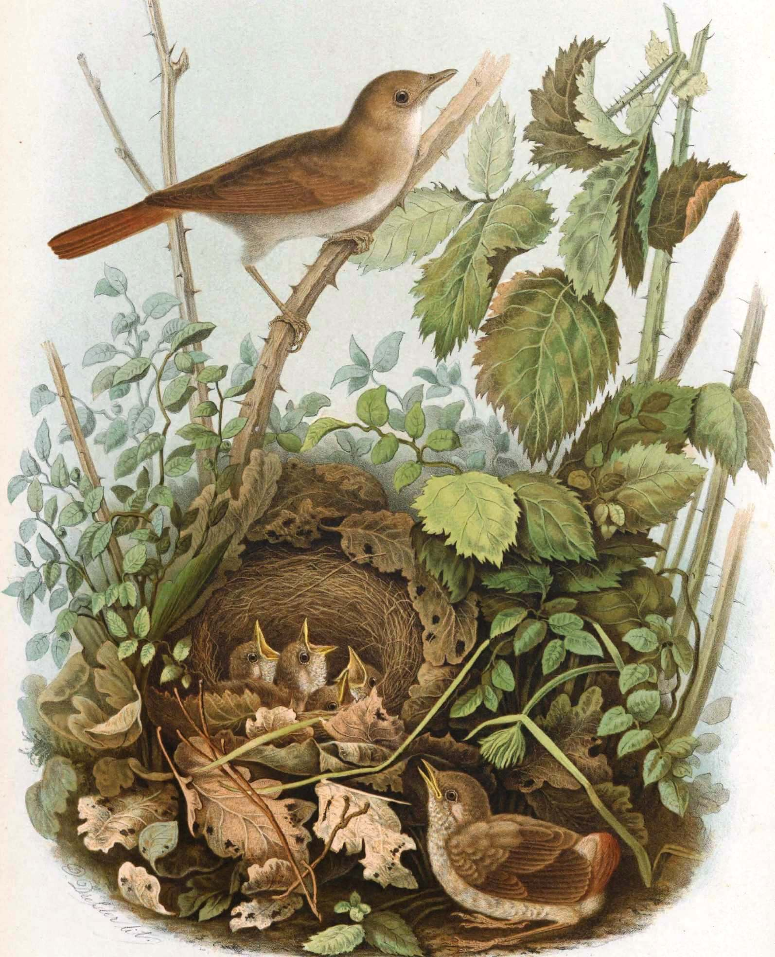 Luscinia megarhynchos. Eugenio Bettoni